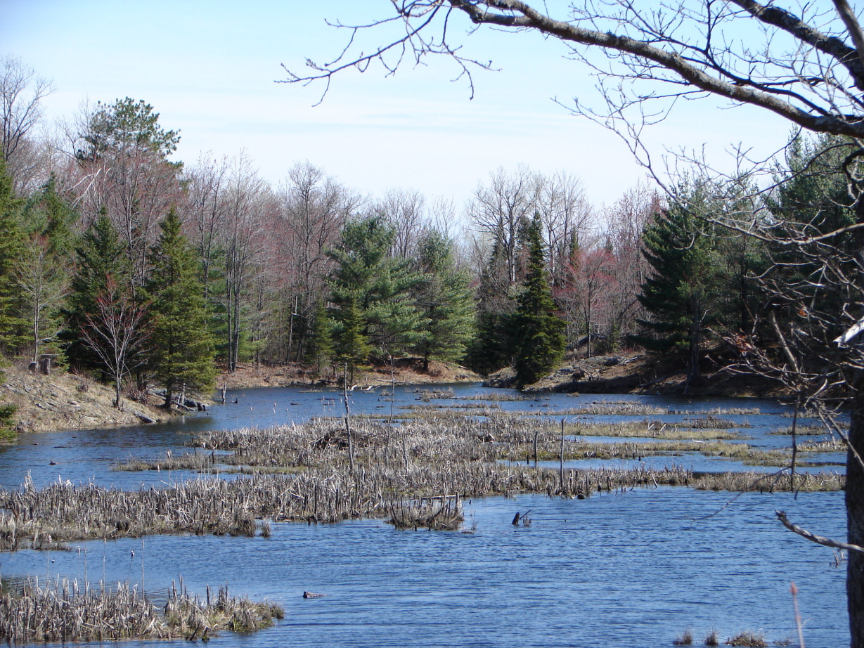 Kawartha Highlands Provincial Park, Ontario, Canada.